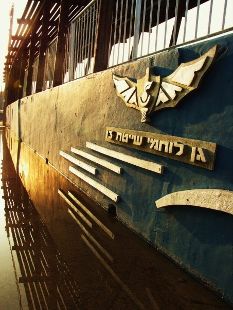 Bat Galim